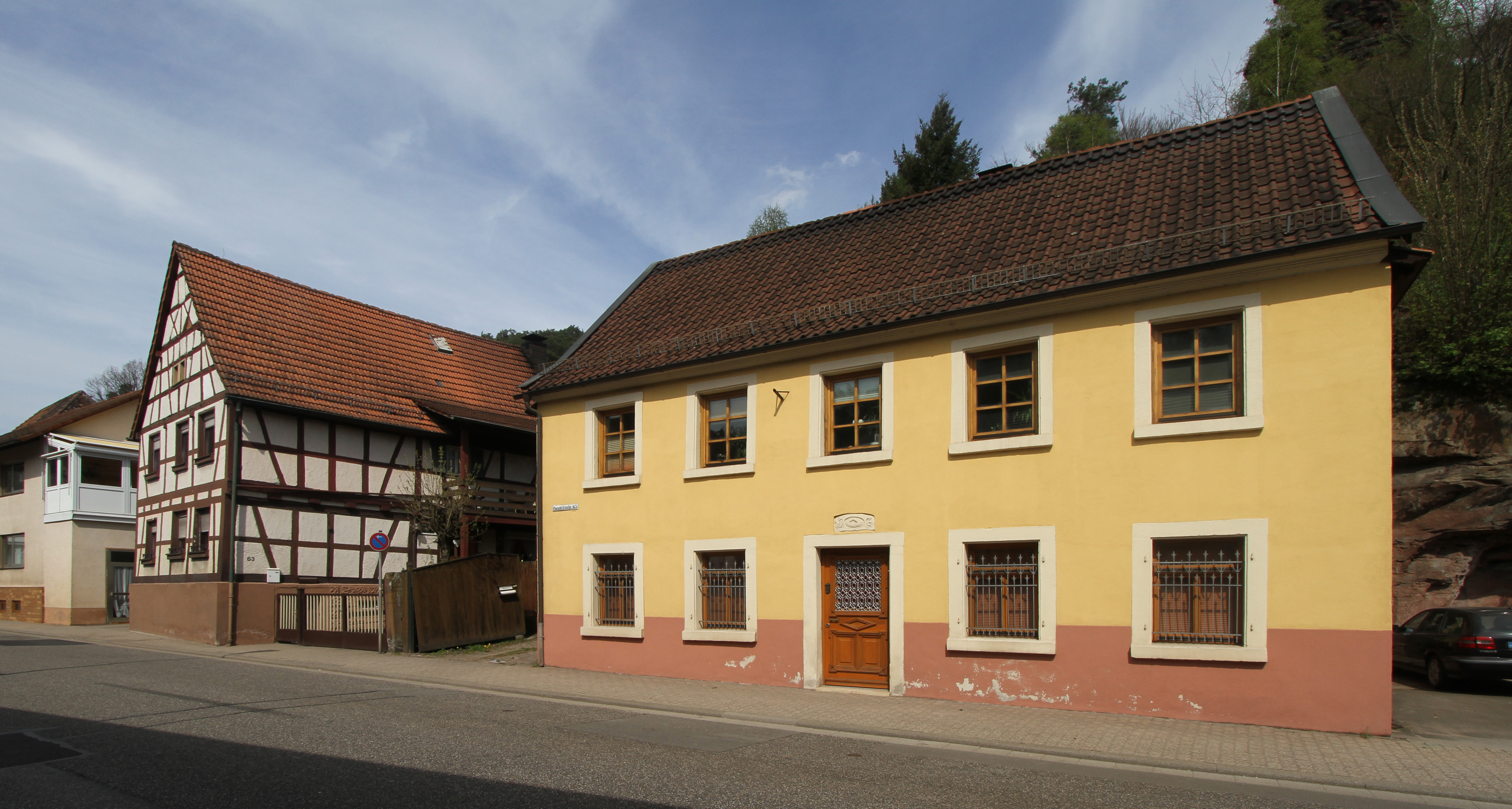 Object in Hinterweidenthal